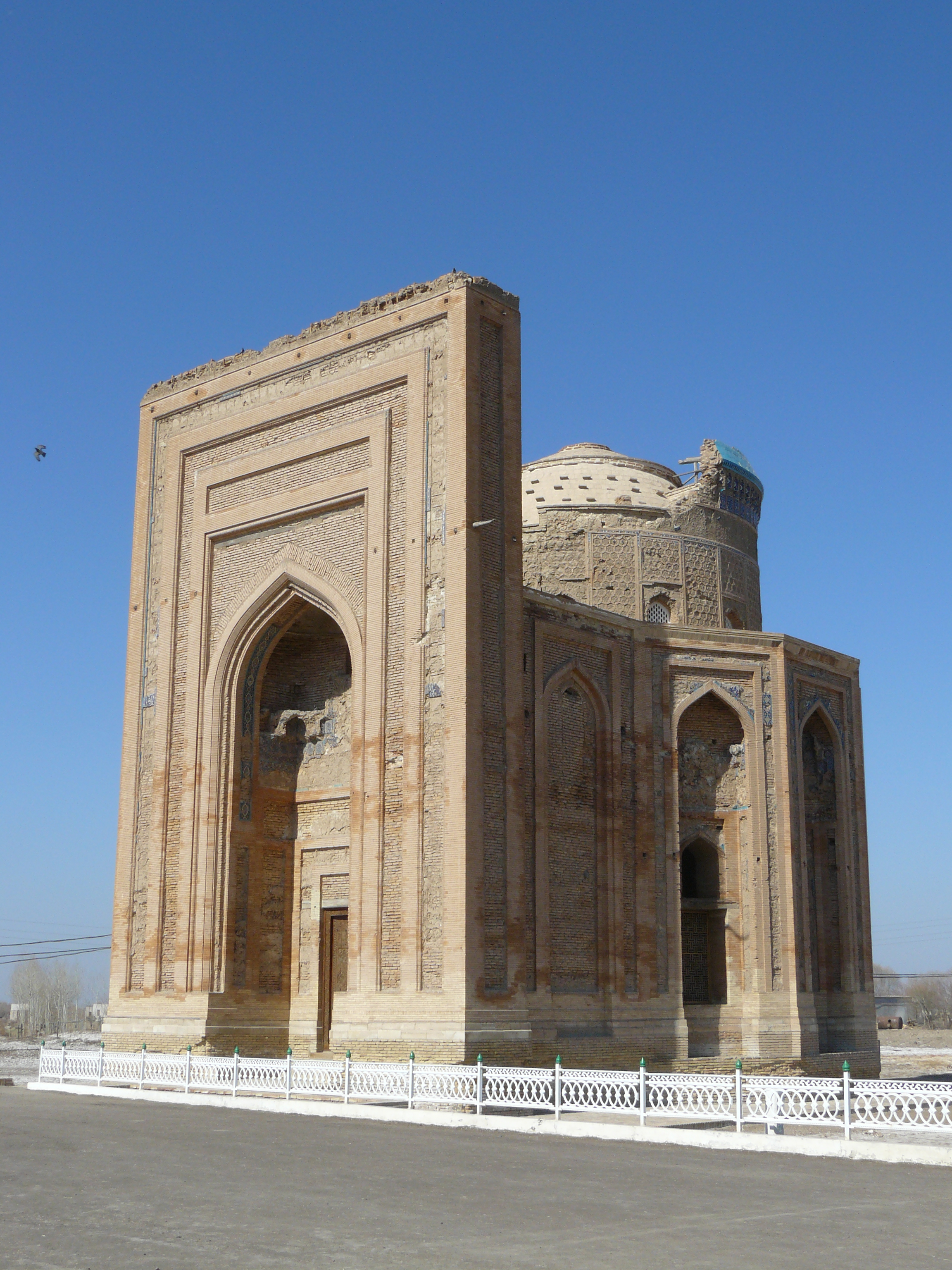 Mausoleum of Turabek Hanym, Kunyaurgench, Turkmenistan